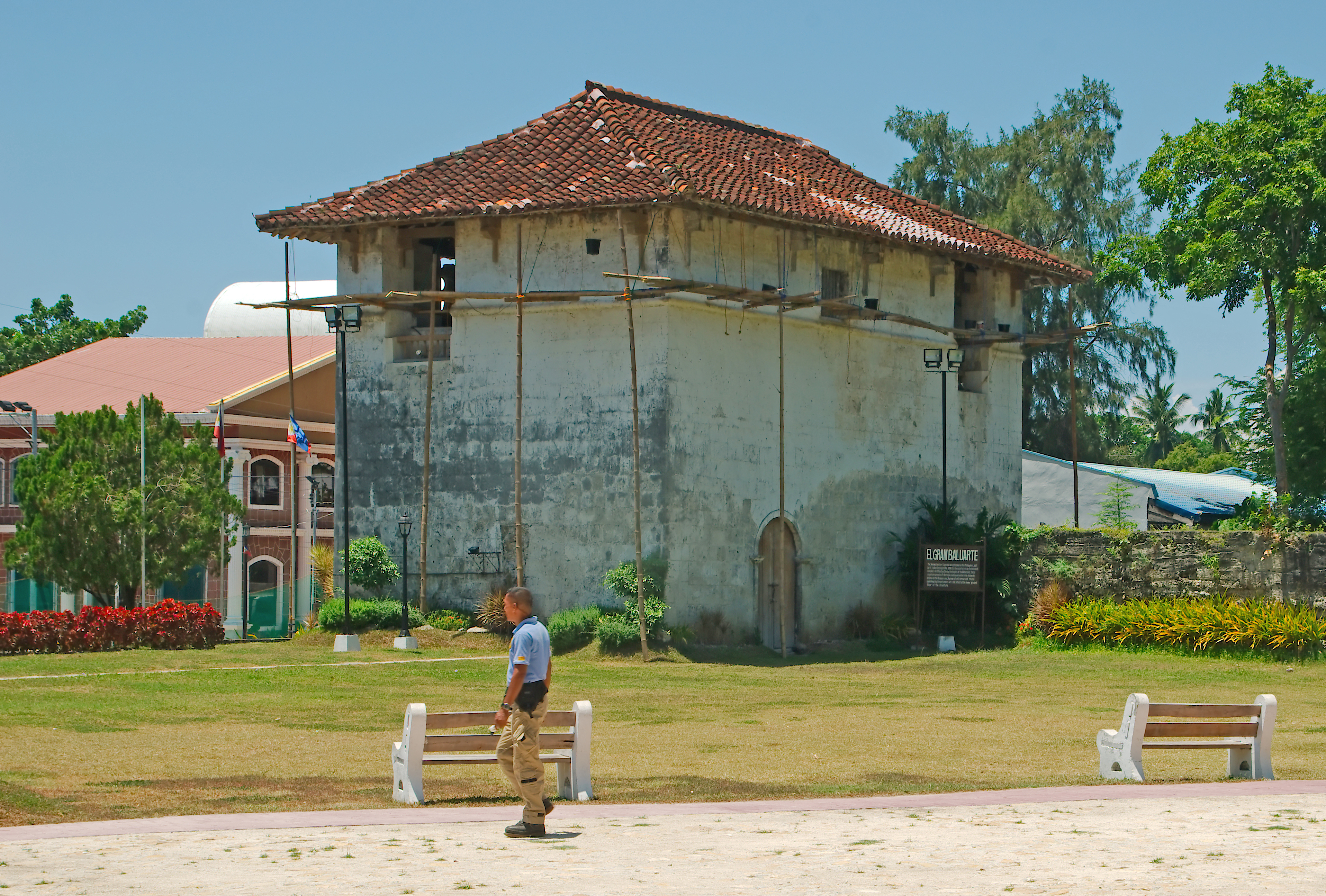 Patrocinio de Maria Church, Boljo-on, Cebu: This blockhouse, two-storey high was part of the fortification built by Fr. Julian Bermejo’s defense network sometime in the 1800's.